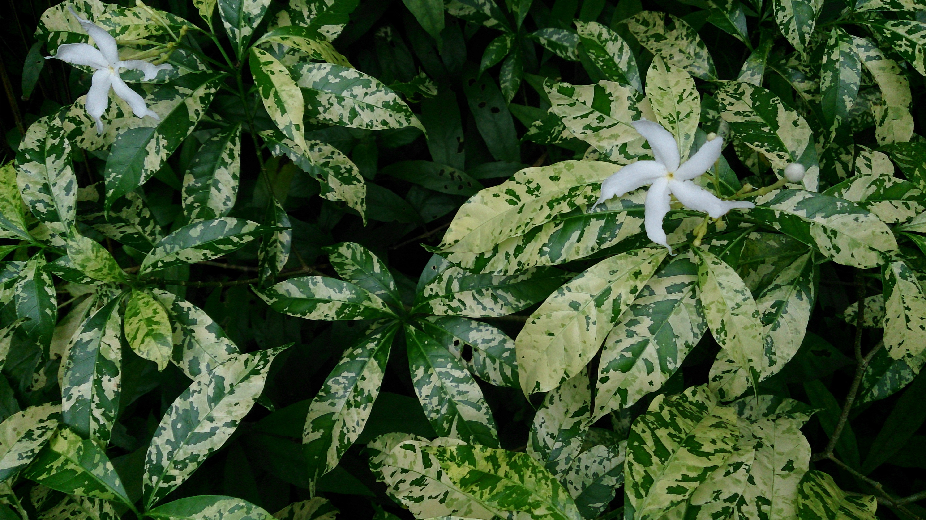 Tabernaemontana corymbosa (with variegated leaves). Common names: Great Rosebay. Jelutong Badak. Origin: Northern India to Malaya.